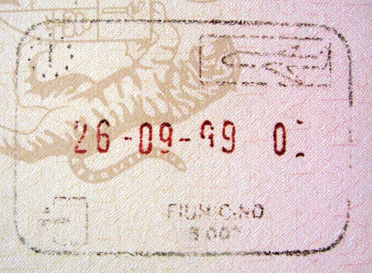 Passport exit stamp on a Malaysian passport from Fiumicino airport, Rome.